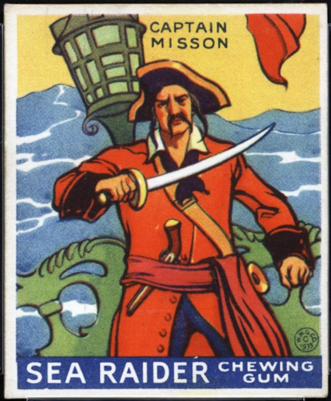 Captain Misson (or Mission), described by Captain Charles Johnson as the founder of a fictional "pirate utopia" called Libertalia or Libertatia.